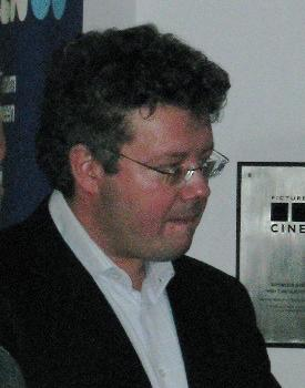 Adam Gee of Channel 4